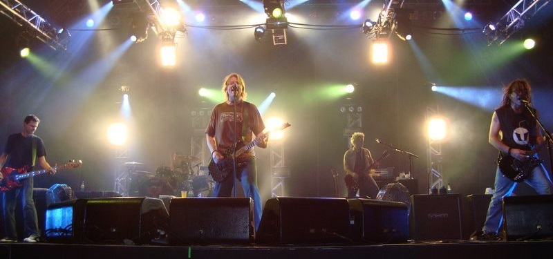 The Offspring performing lite in Fortaleza, Brazil, November 15th 2008